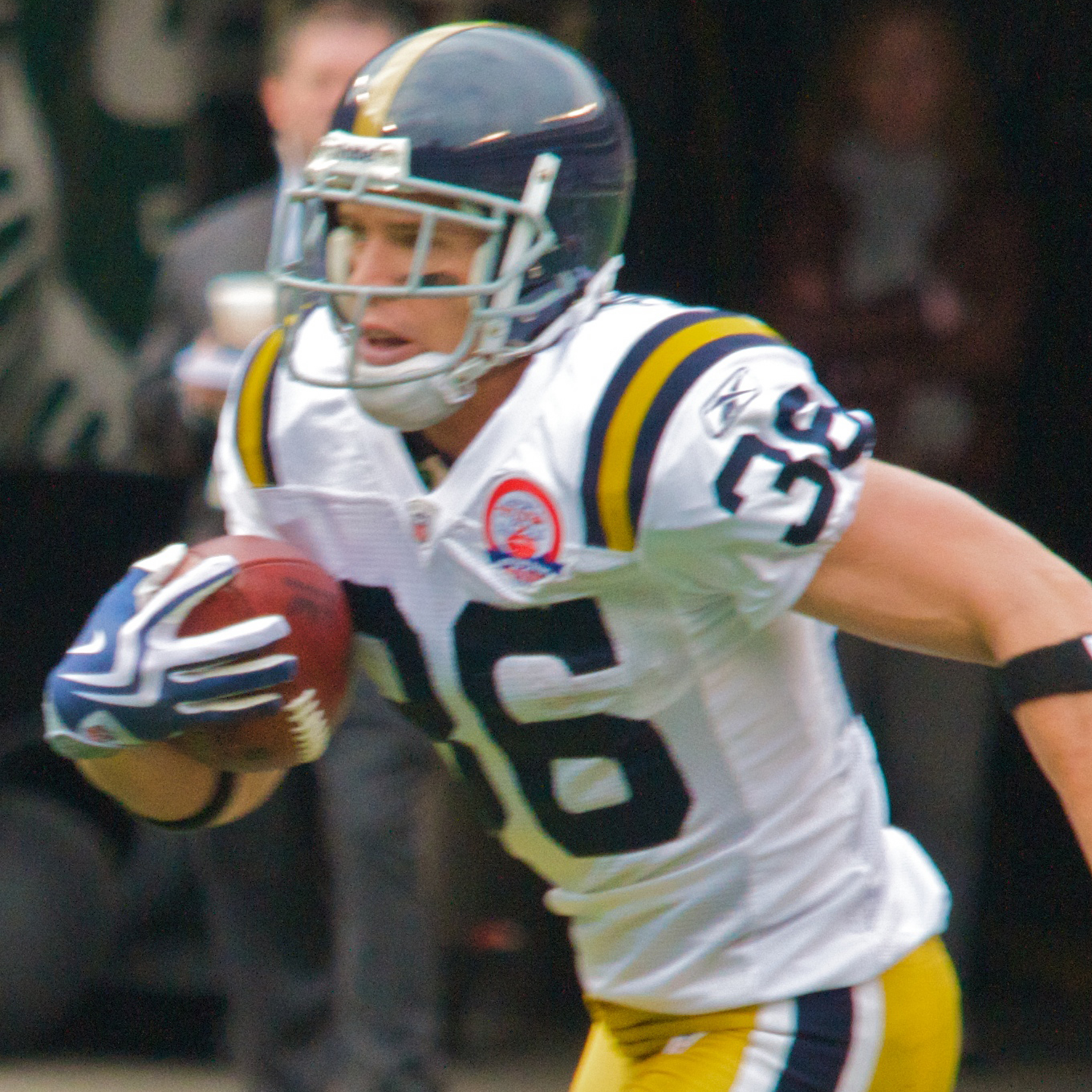 Jim Leonhard of the New York Jets. This file has been extracted from another file: Jim Leonhard return Jets-Dolphin game, Nov 2009 - 011.jpg